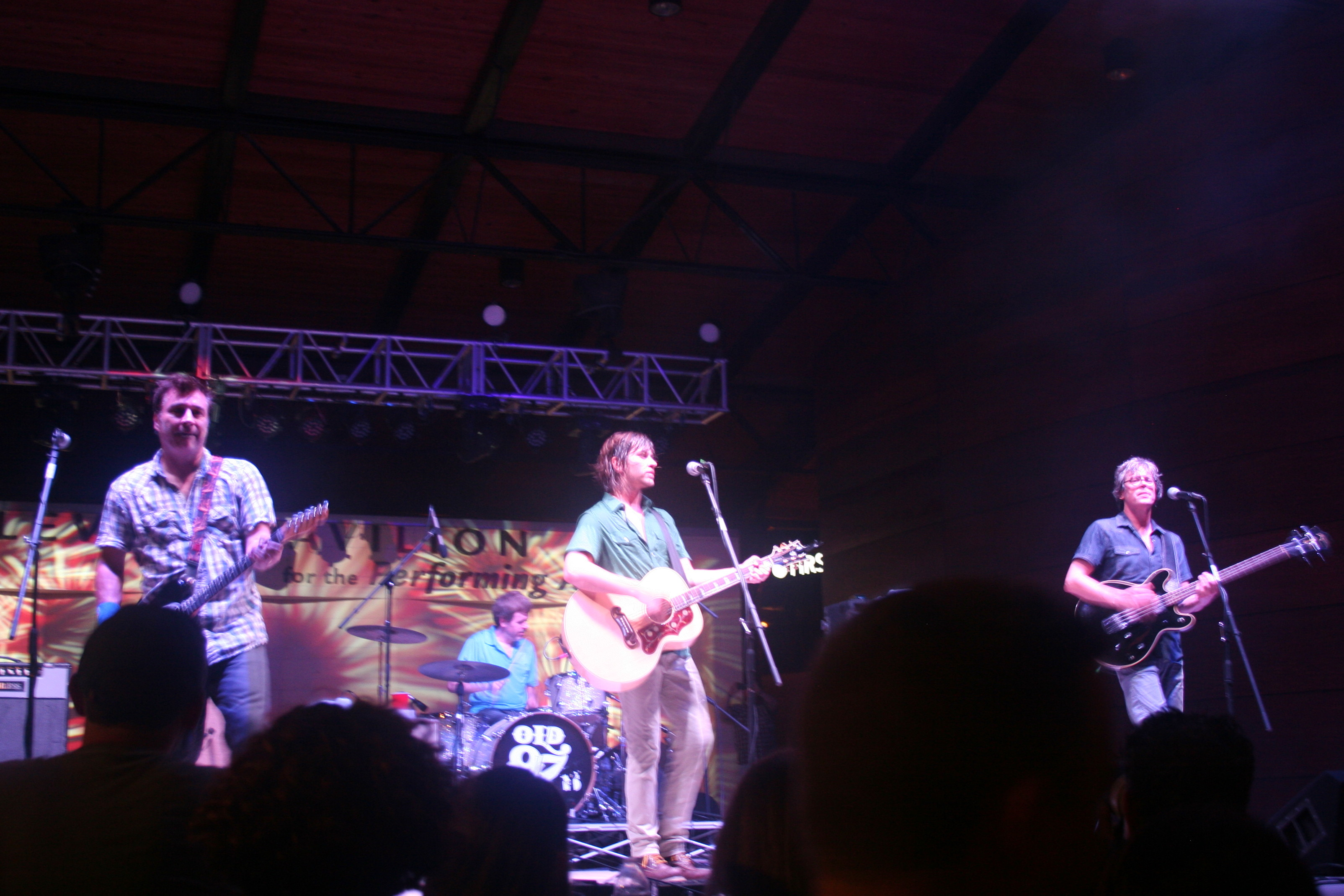 The country-pop-rock band Old 97s in performance on a warm evening in 2013 on Memorial Day weekend at the Levitt Pavilion in Arlington, Texas.